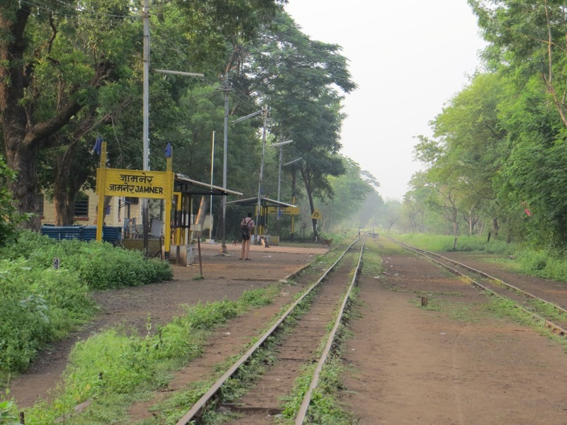 Jamner Railway Station Photo